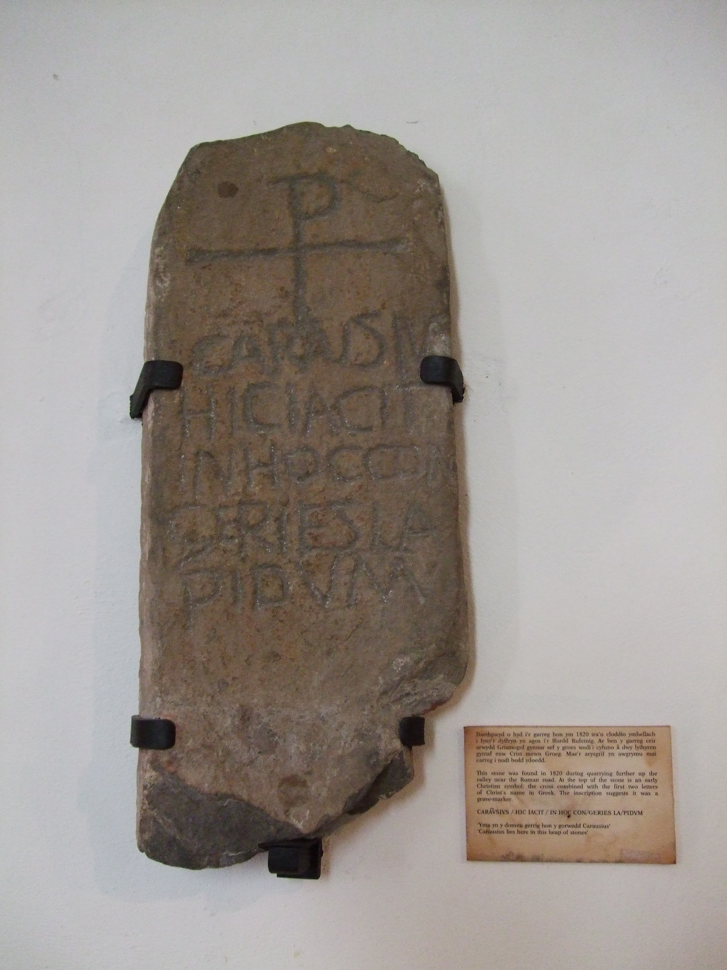 One of a number of memorial stones in the sanctuary wall of St Tudclud's, which it is believed, date to the late 5th and 6th century A.D. Written in Latin they probably commemorate important people. The words suggest contact between the early Welsh Church and Christians in Southern Gaul. This one in particular, known as The Carausius Stone, stood for many years at the nearby Rhiwbach Slate Quarry. It bears the CHI RHO symbol and only one other such stone, Treflys, has been found in Wales. In fact only twelve examples have been found in Britain. The symbol is a monogram from the first two letters of the Greek word for Christ. Early Christians preferred not to use the symbol of the Cross as this was seen as a pagan symbol of capital punishment. The translation of the horizontal inscription reads Carausius lies here in this heap of stones. It is not known when the stone was moved to St Tudcluds.